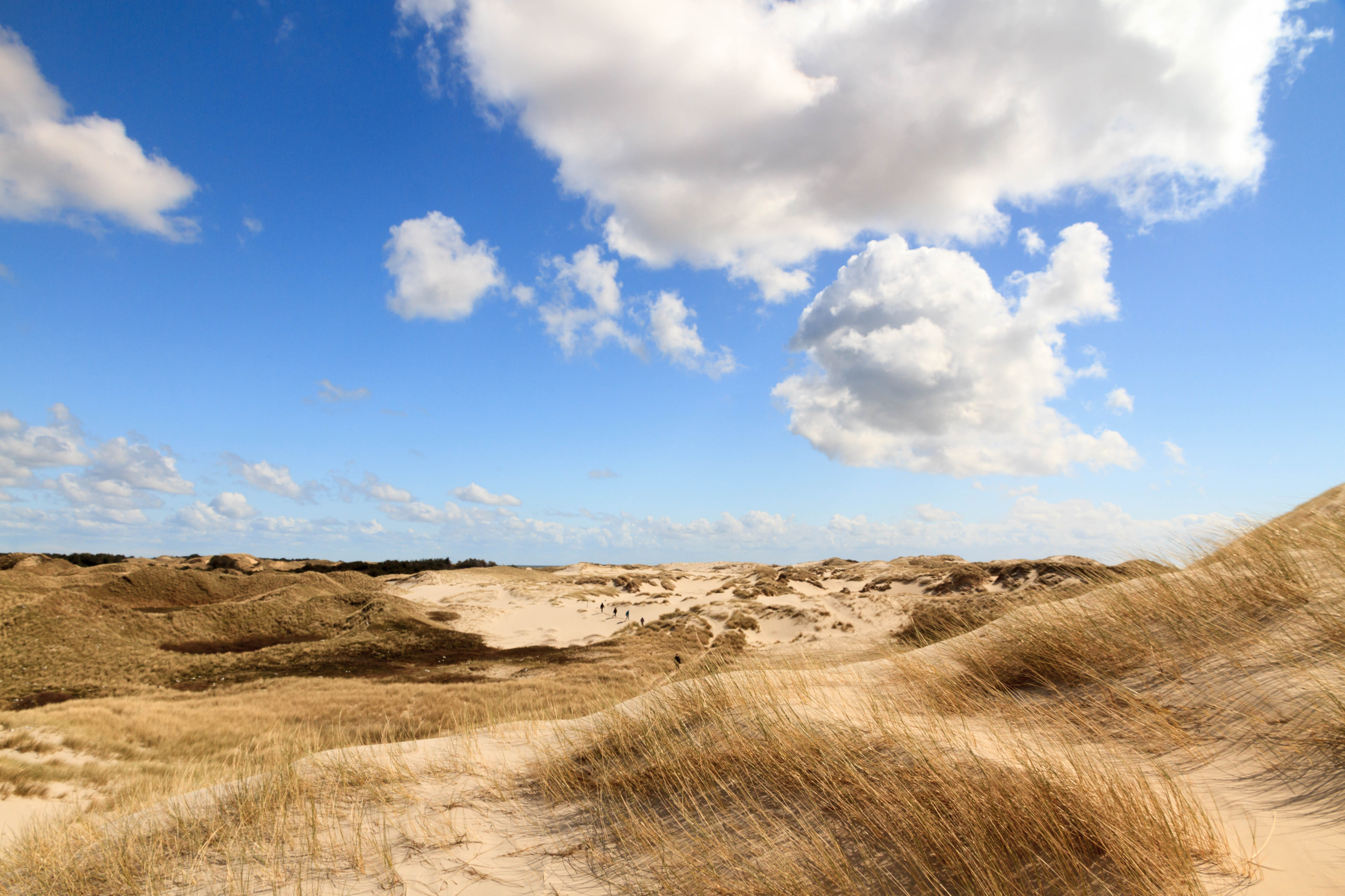 The making of this document was supported by the Community-Budget of Wikimedia Germany. In den Dünen von Amrum